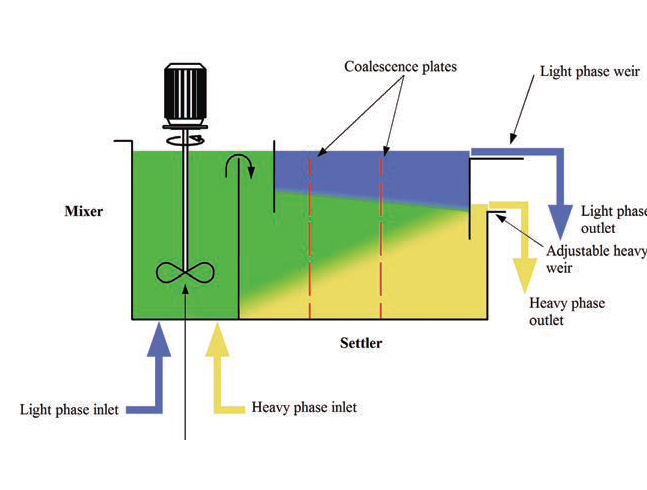 Cross section view of a mixer-settler